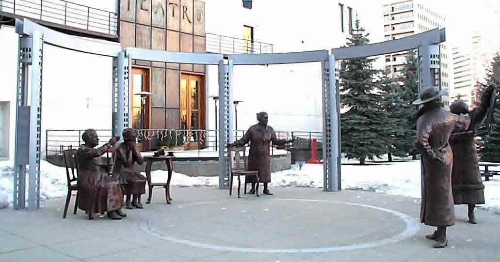 This is a statue of The Valiant Five, a group of Albertan Women. It is a work on permanent public display. This picture was taken by the uploader, and is released into the public domain, with no copyright, and no reservations.